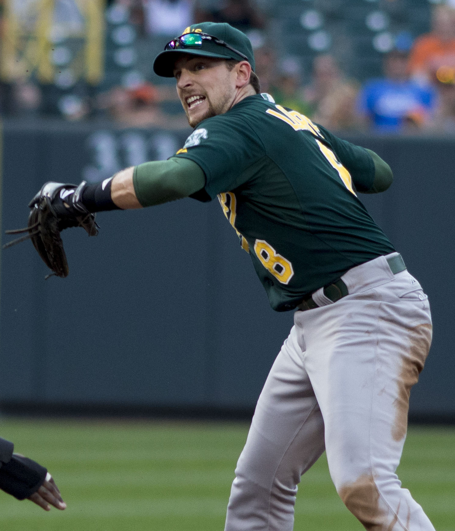 Jed Lowrie